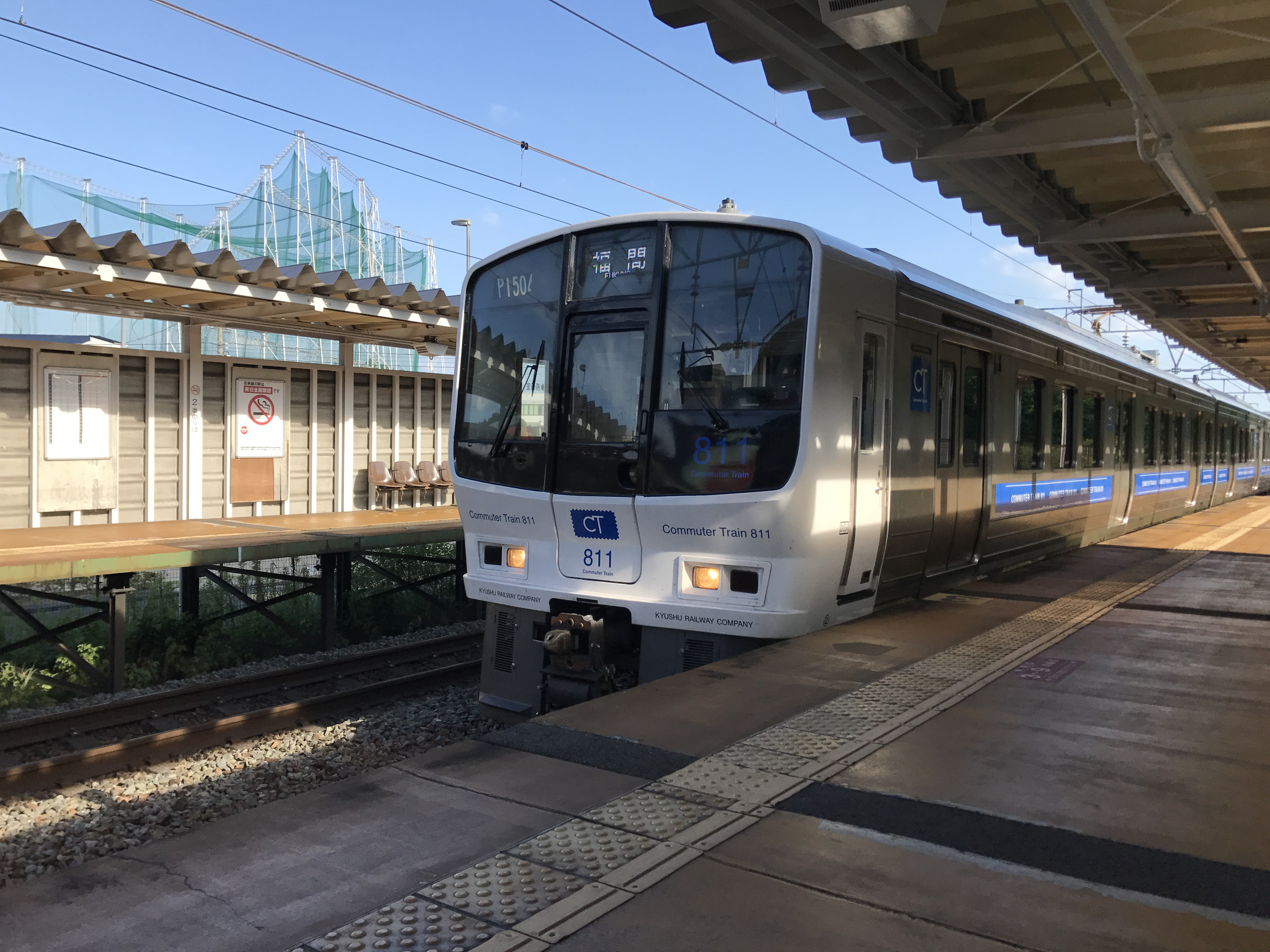 Refurbished JR Kyushu 811-1500 series EMU set P1504 at Keyakidai Station in Saga Prefecture, Japan